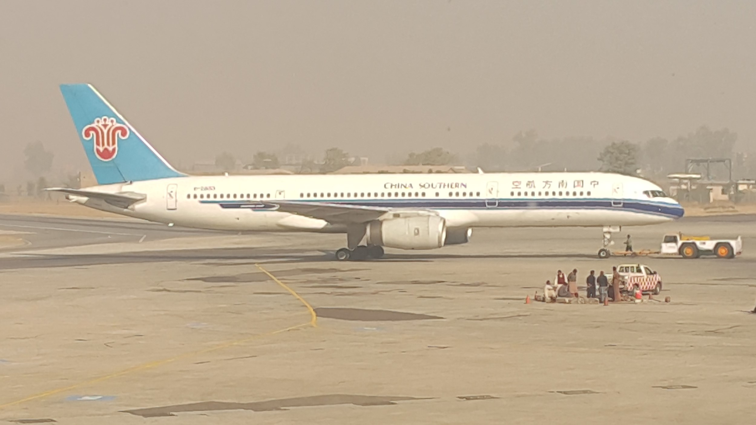 China Southern Airlines taxing as seen from waiting lounge of BBIA